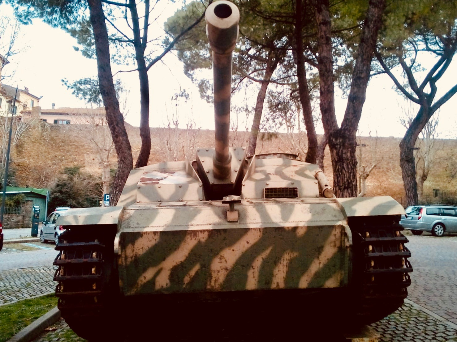 Castiglion Fiorentino (AR). Sturmgeschütz III (StuG III)) used as iron gate in a parking.